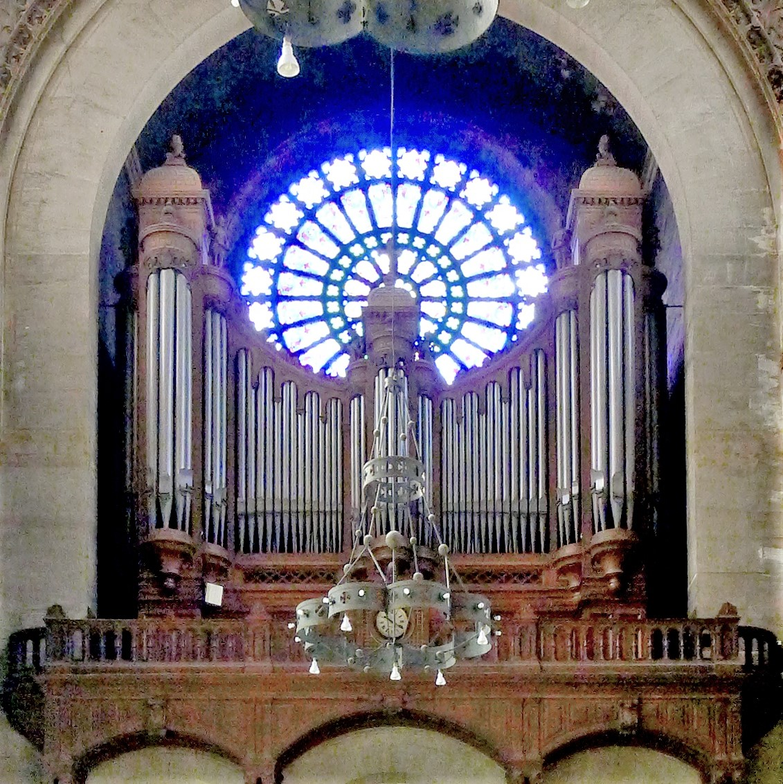 Saint-Augustin church - Paris